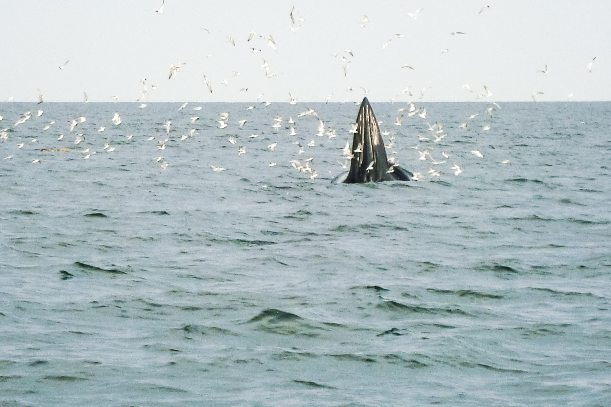 จุดชมฝูงวาฬบรูด้าในอ่าวไทย